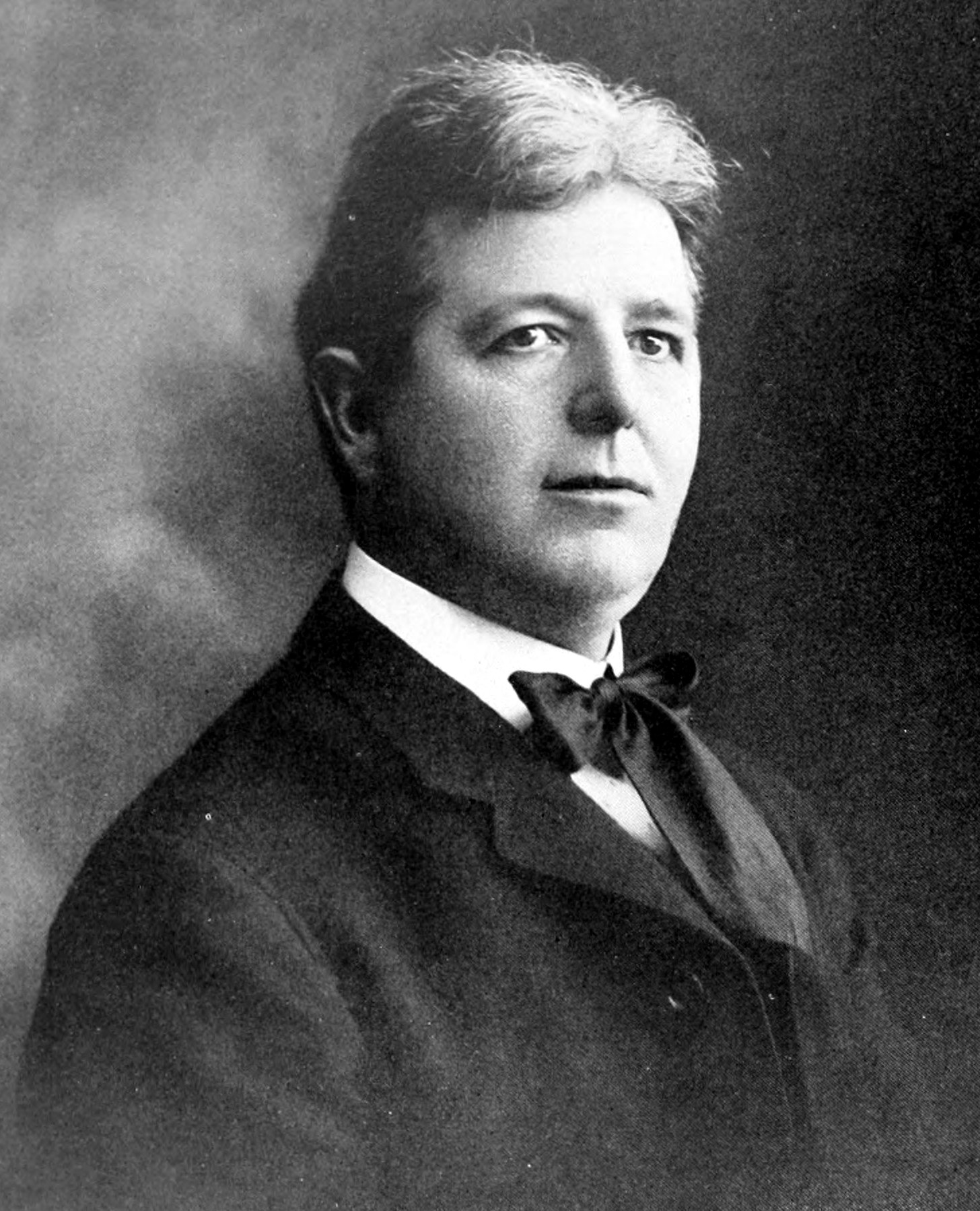 Portrait of Charles Comiskey